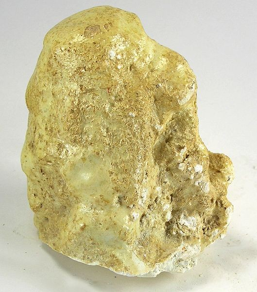 Copiapite Locality: Bolesław Mine, Przygórze, Nowa Ruda, Kłodzko District, Lower Silesia (Dolnośląskie), Poland (Locality at ) Copiapite [not analysed] is a really weird highly hydrated iron sulfate that forms near the surface, in secondary oxidation zones of iron ore deposits. The iron that forms it usually comes from one or another of the sulfide minerals. It is remarkably light in the hand, and has a chalky texture. This large specimen came from the collection of Dave Stoudt, who was stationed in Poland for 10 years, and had the opportunity to obtain specimens from old and generally closed localities, in addition to some interesting contemporary things many of which did not reach the general market. Sprayed with a very light enamel to prevent crumbling.